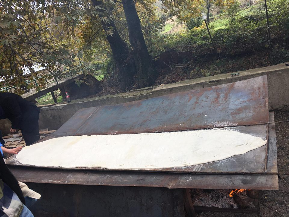 zhengyalov hats rekord 1